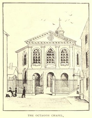 The Octagon Chapel, Temple Court, Liverpool, England; building in existence 1763 to 1820.